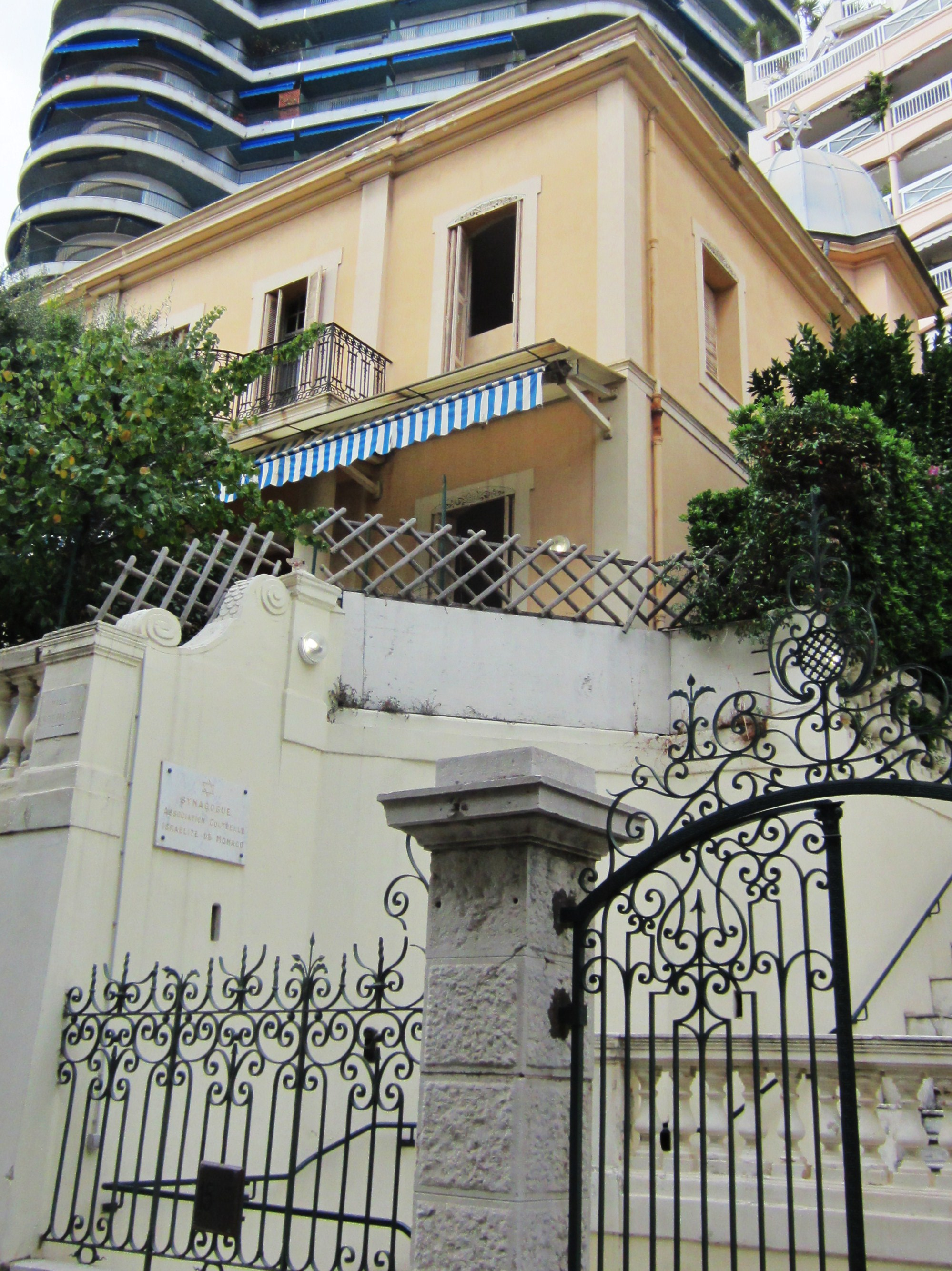 Description Ancienne synagogue de Monaco Date24 December 2011Sourcemon appareil photoAuthorAimelaimePermission(Reusing this file) Ancienne synagogue de Monaco